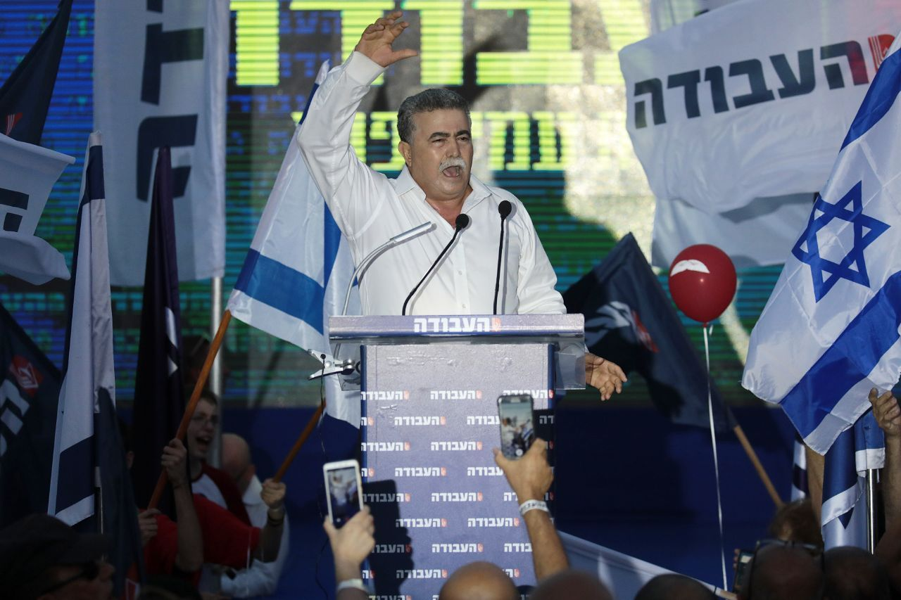 Amir Peretz at his election campaign 2019, second run